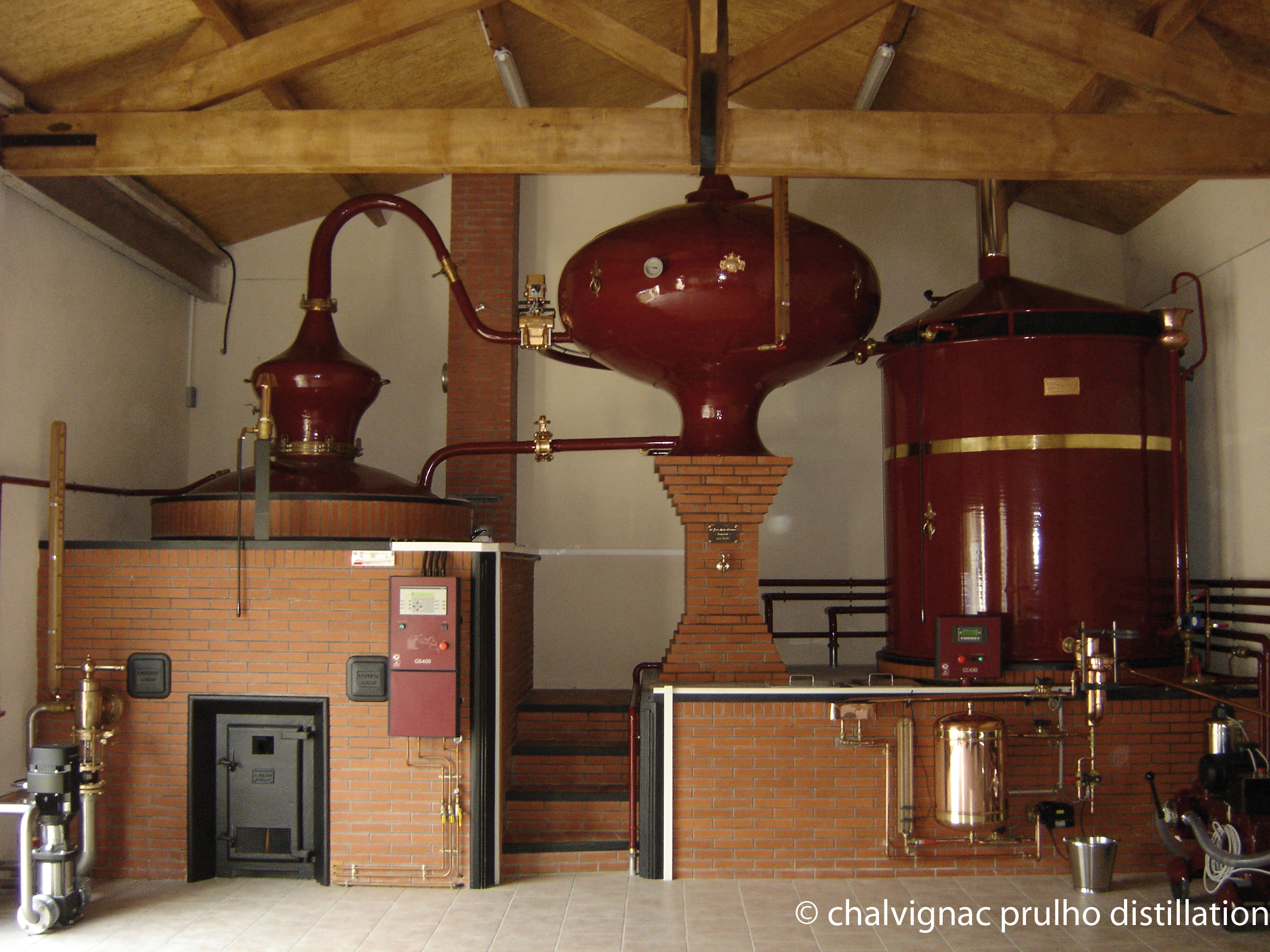 Large "charentais" type alembic for distilling spirits, manufactured by Chalvignac Prulho Distillation